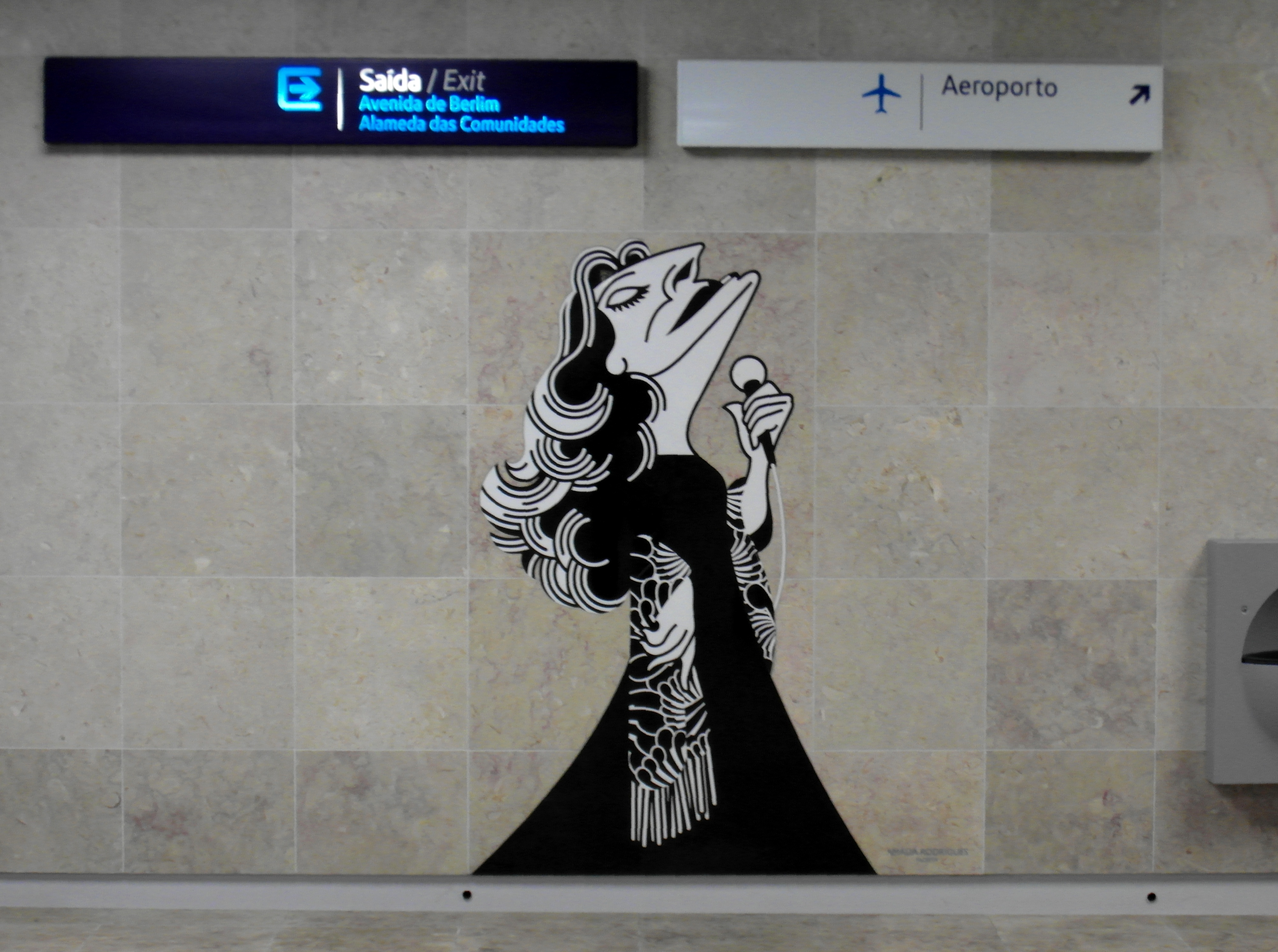 Cartoon of the Portuguese singer Amália Rodrigues at Aeroporto metro station, Lisbon, Portugal